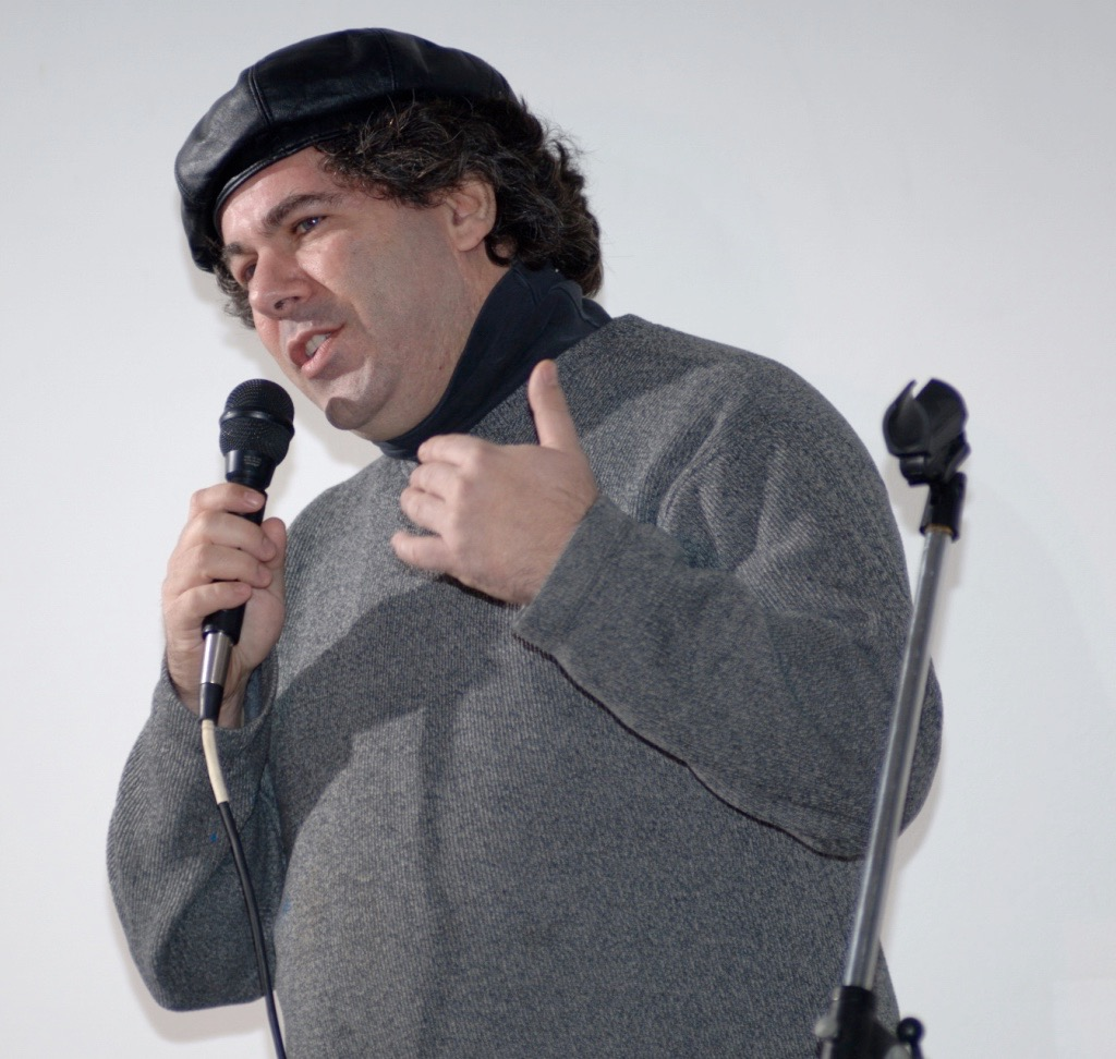 at Hurrciane Katrina Benefit